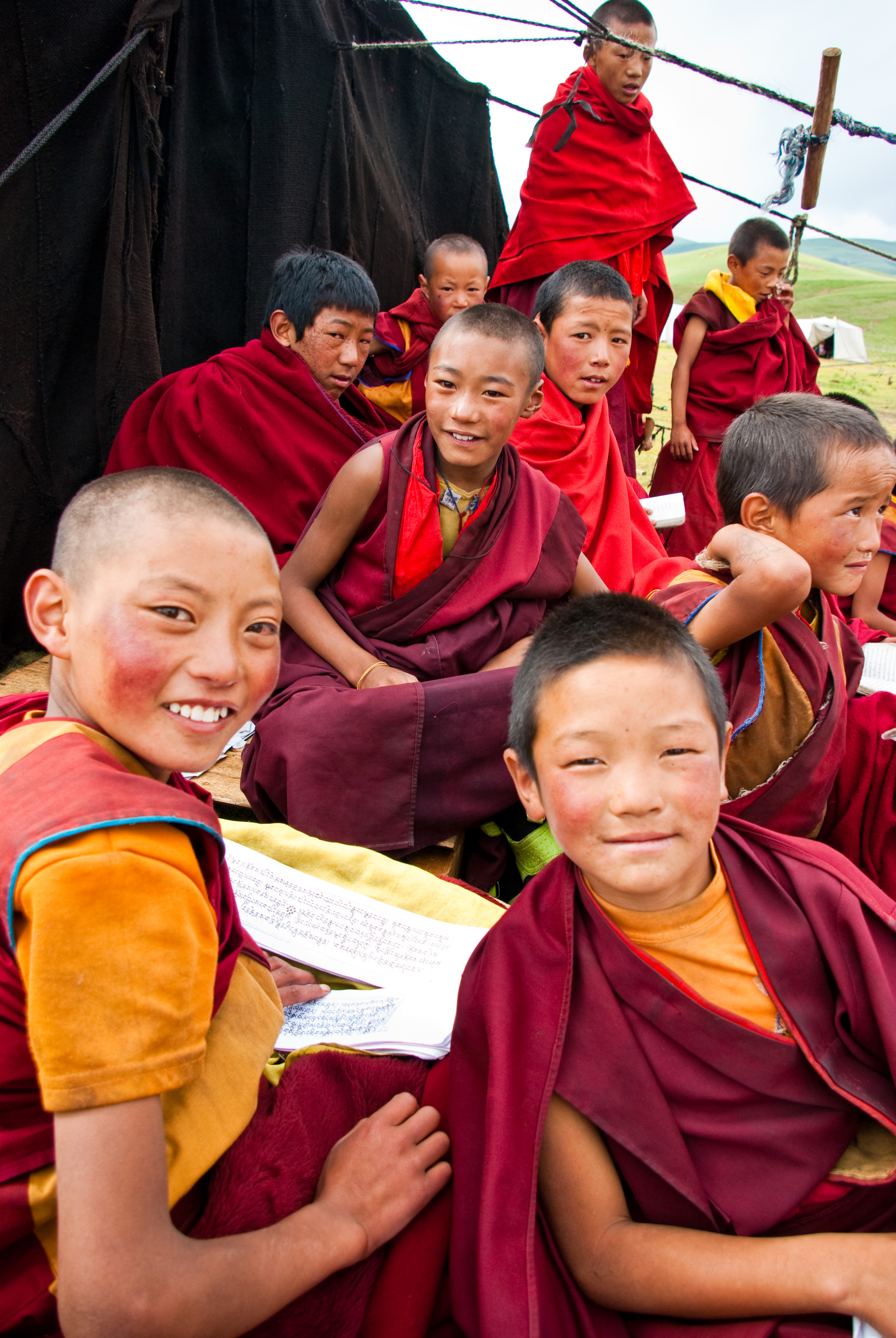 Litang Monastery (a nomad camp of the Litang monastery)